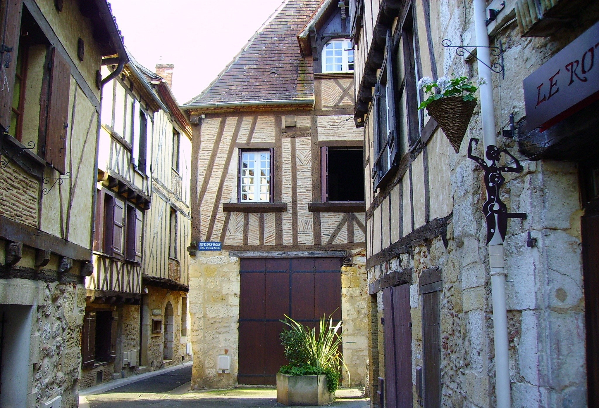 Alley in Old Bergerac